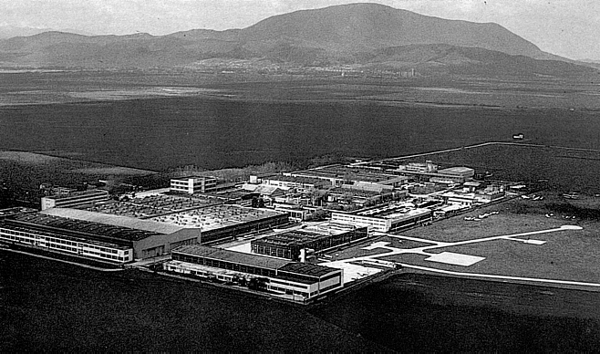 This picture shows the IAR factory